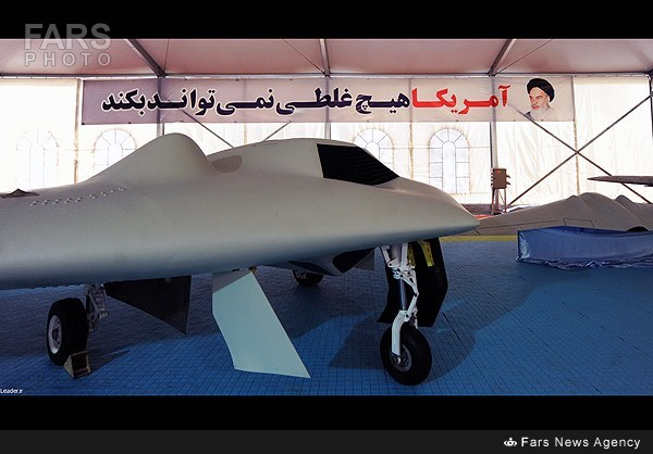 Iranian Shahed 171 Simorgh UAV at an IRGC-ASF arms expo.